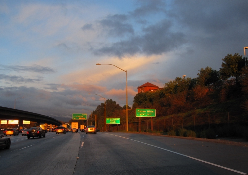 My own photo of Pomona Freeway